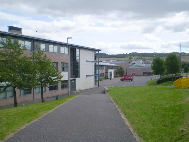 Bo’ness Academy from the north The white door is the main entrance and the block behind the school minibus contains the swimming pool.